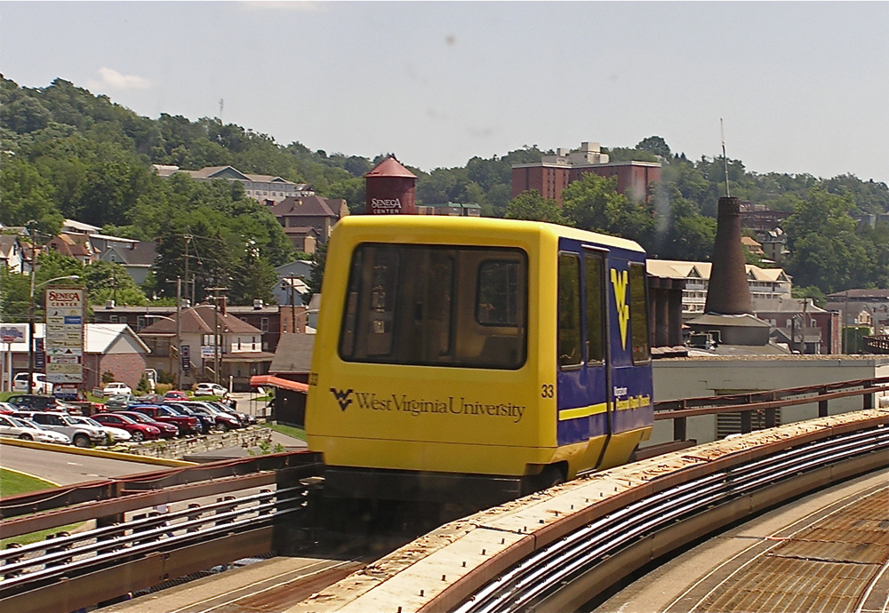 Morgantown Personal Rapid Transit, near Beechurst Station, July 2008.